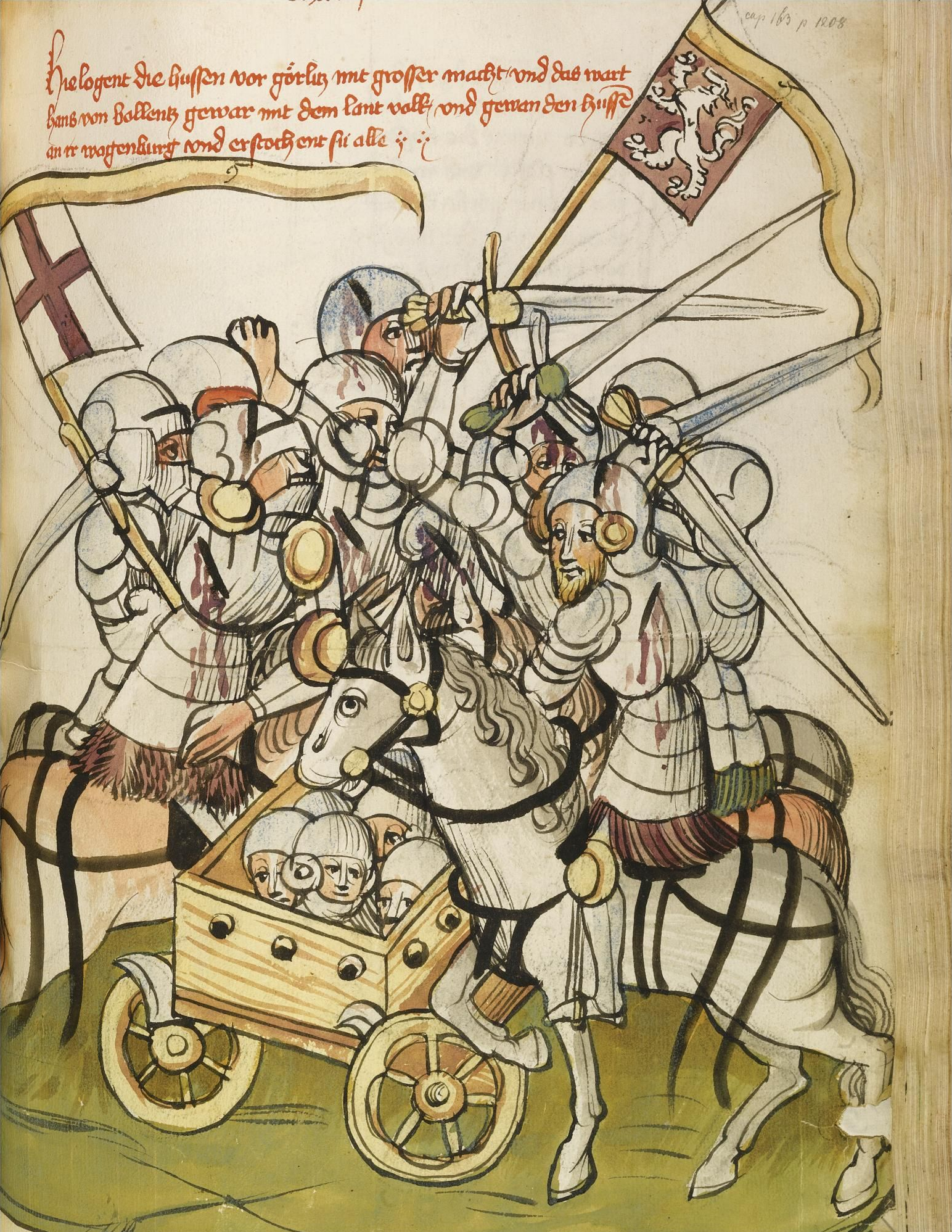 Eberhard Windeck: Das Buch von Kaiser Sigismund (Handschrift bei Sotheby's 7.7.2009, folio 140r, the battle of Kratzau, with Hans von Polenz (the captain of the Silesian army) and his forces overwhelming those of the Hussites and their armoured carriages in a bloody battle (11 November 1429)